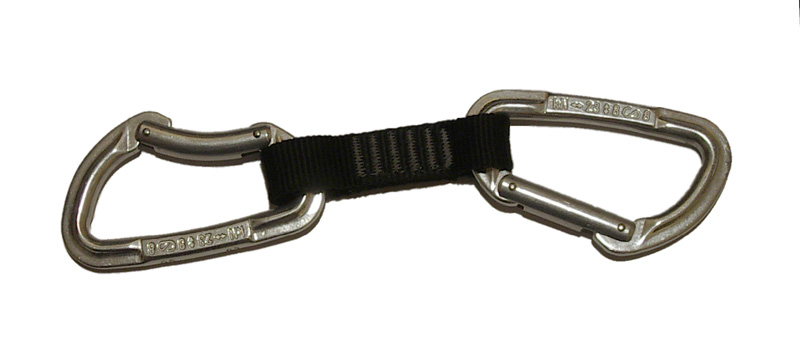 Quickdraw on white background